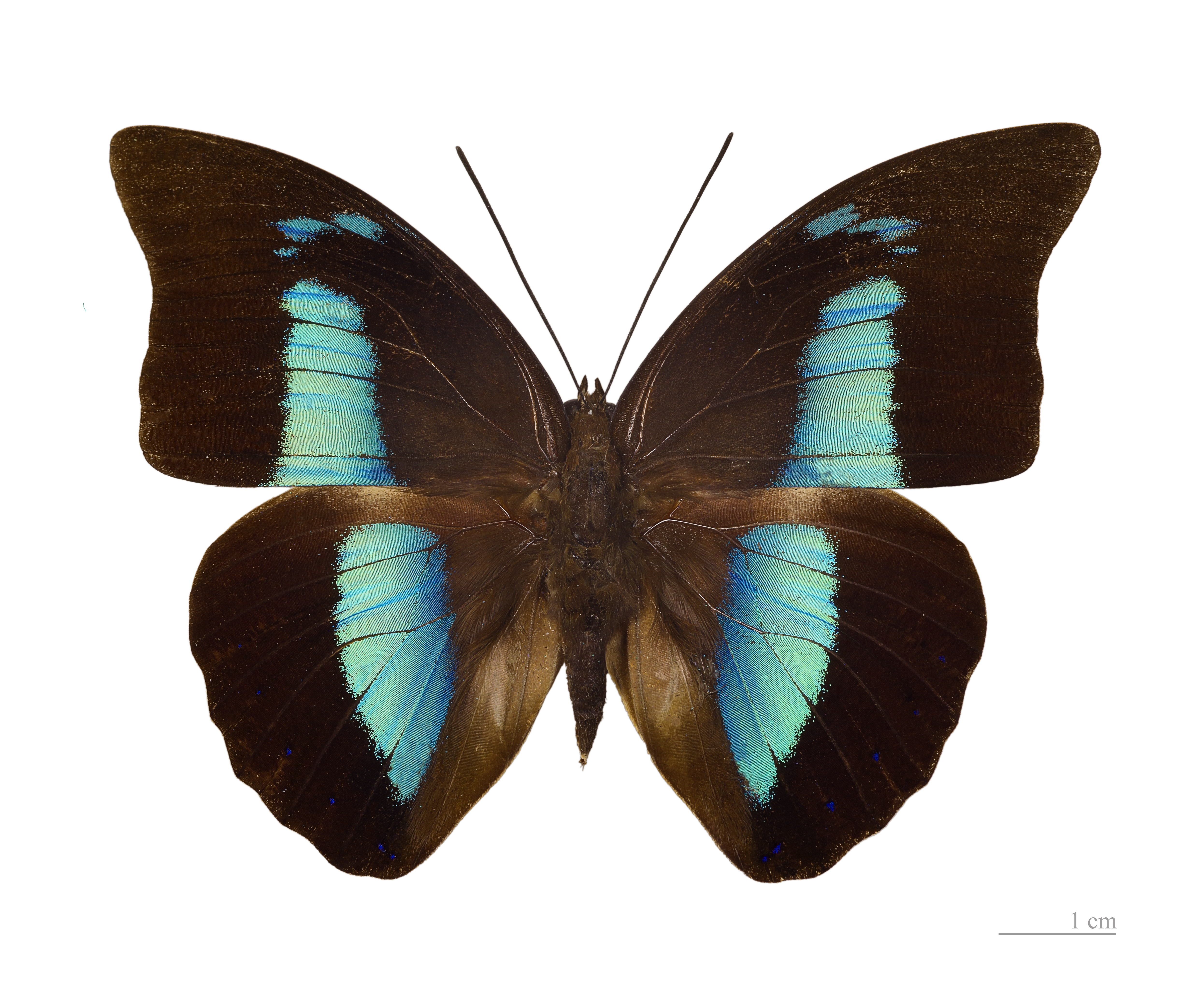 ♂ - dorsal side Locality : Tena, Ecuador